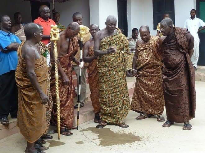 Pouring of libation is on of the practices of the Ashanti tribe from Kumasi in Ghana This is an image with the theme "Play" from: Ghana